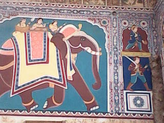 One of the wall paintings of Saraf Haveli